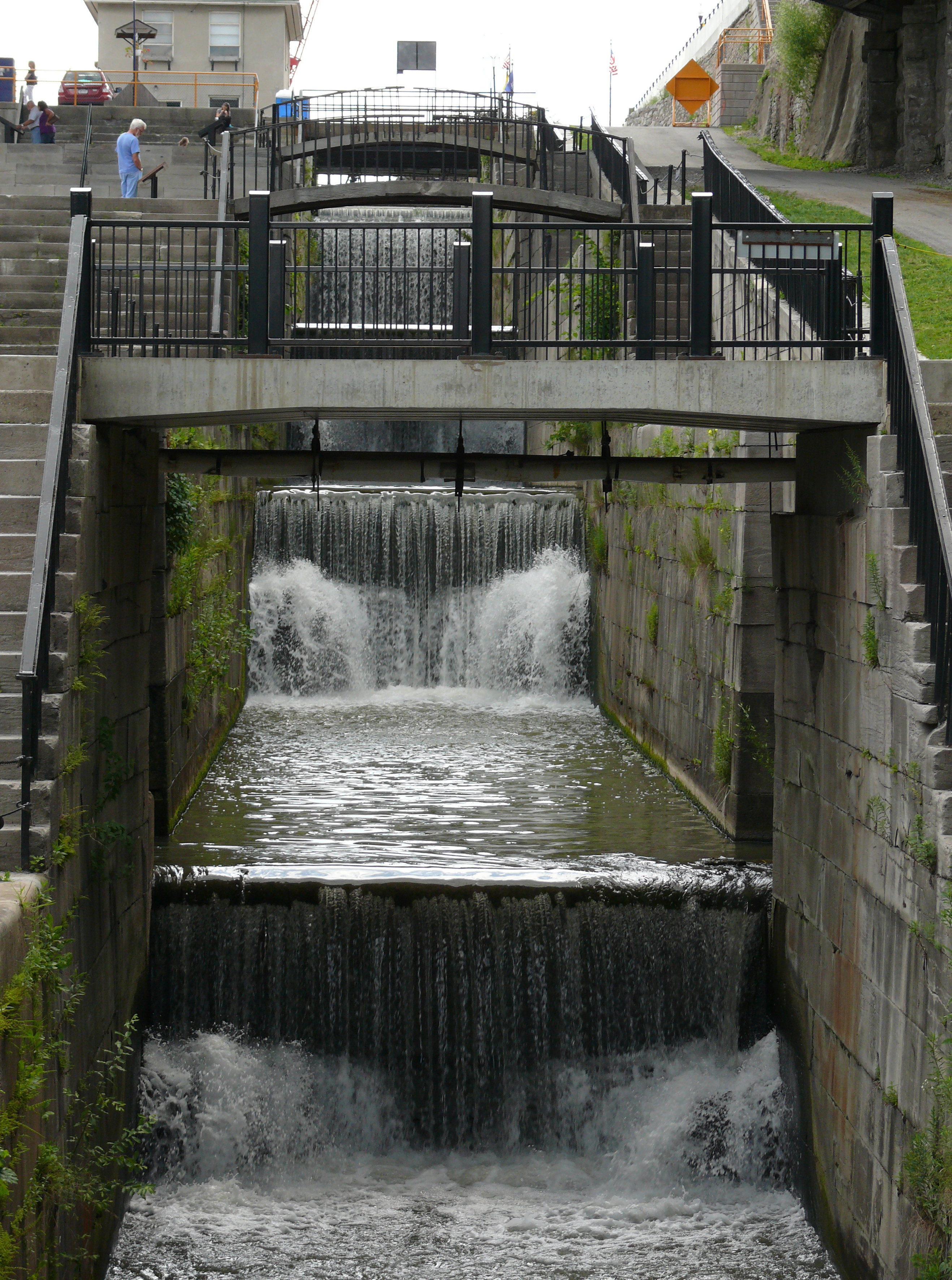 Locks on Erie Canal at Lockport, NY. The canal follows the channel of a creek that had cut a ravine steeply down the Niagara escarpment, with two sets of five locks in a series. The south "flight of five" locks were replaced by two much larger locks E34 and E35. The north "flight of five" lock chambers, pictured here, still remain as a spill way.